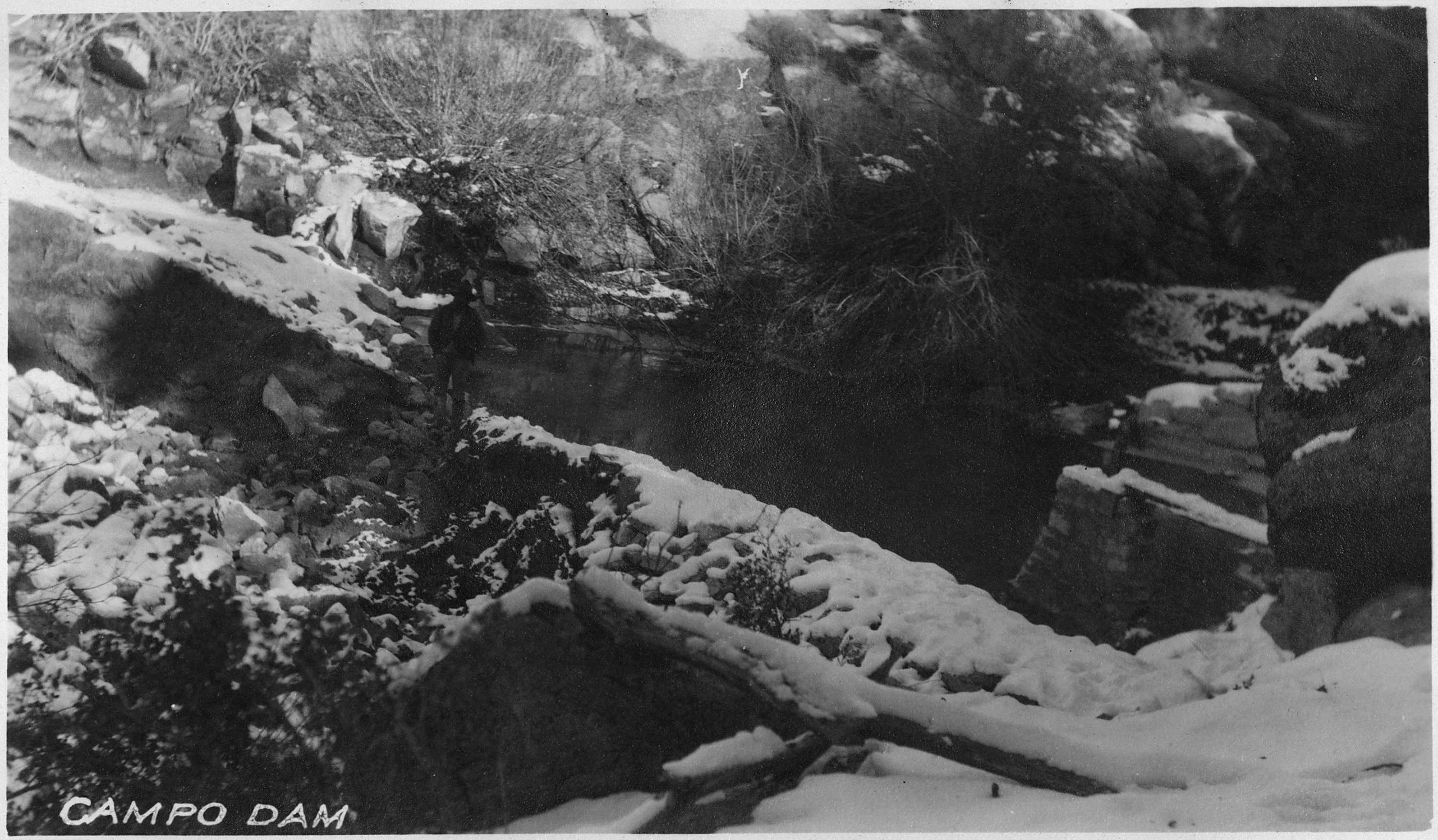 Scope and content: Reports contain information on irrigation issues for a variety of Indian Agencies under the control of the Portland Area Office including agencies in Idaho, Oregon, Washington, California, Utah, and Arizona.